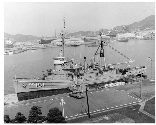 USS Cocopa moored dockside. U.S. Navy photo, date and photographer unknown.